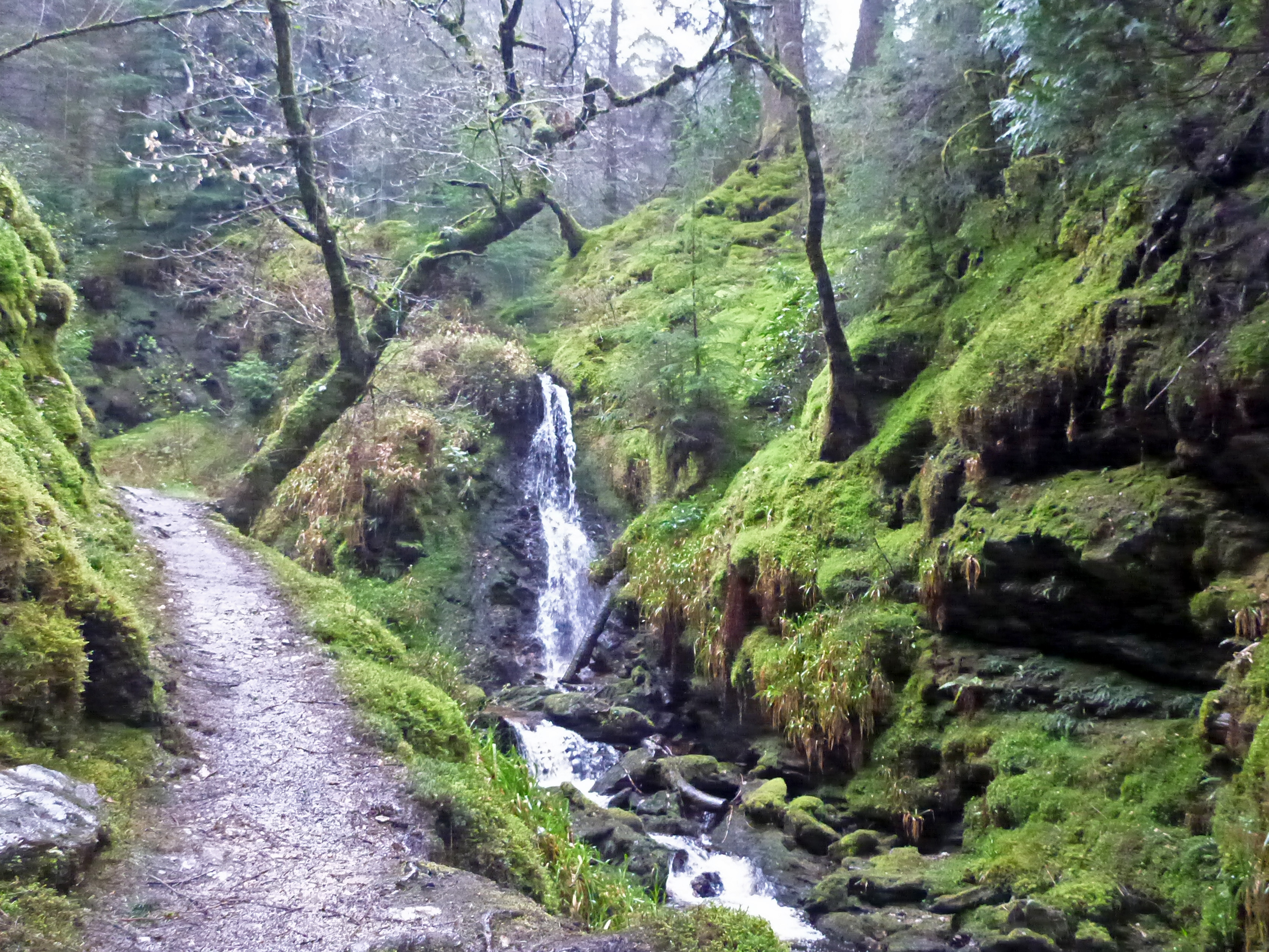 Puck's Glen, a scenic ravine near Benmore Botanic Garden on the Cowal peninsula in Argyll and Bute, Scotland, with a path beside the river providing a scenic walking route which is a popular feature of the Argyll Forest Park. View of the Upper Puck's Glen Loop which continues the path up to where it meets the Black Gates Trail